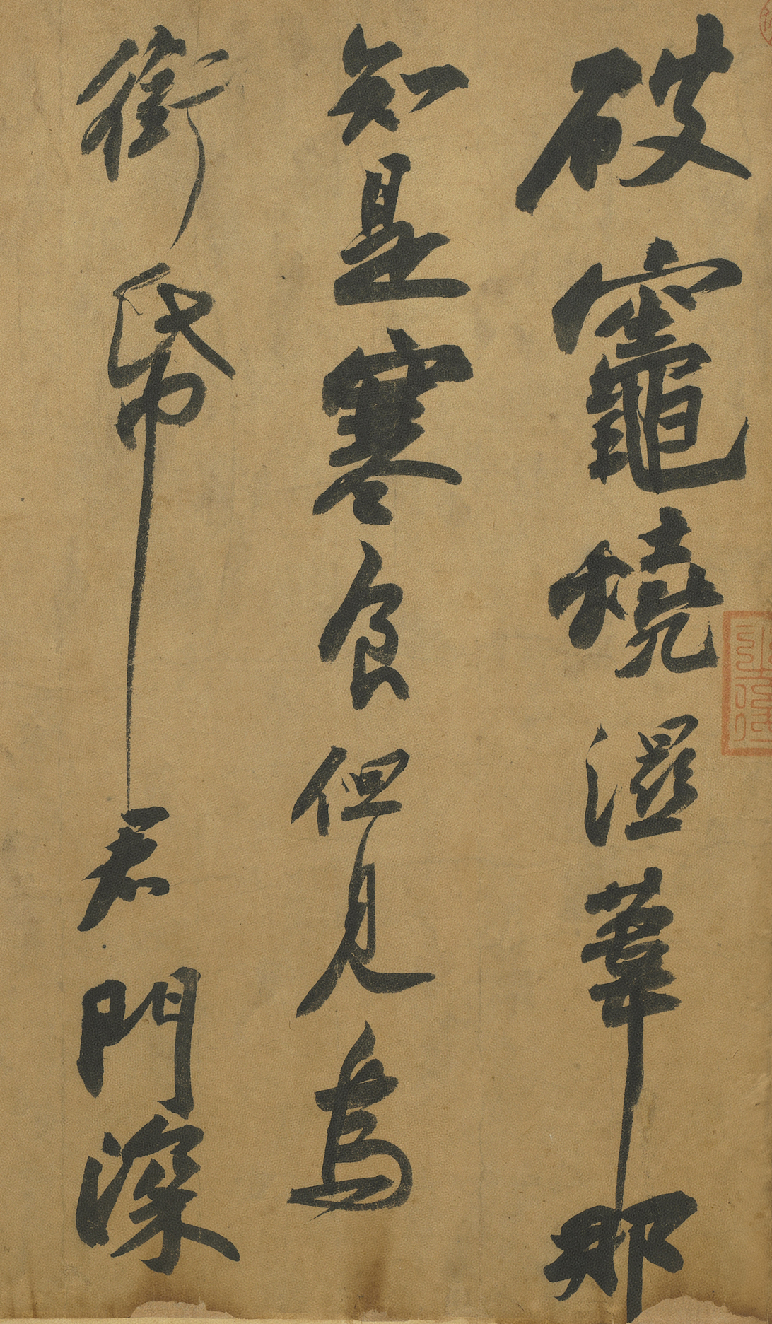 A detail of The Cold Food Observance, specifically the 11th to 13th line on the handscroll, depicting calligraphy in semi-cursive script